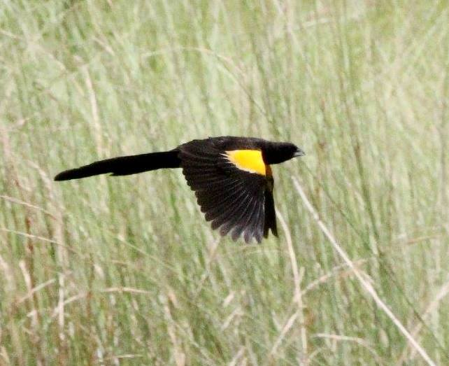 Marsh widowbird near the source of the Cuito river in Angola